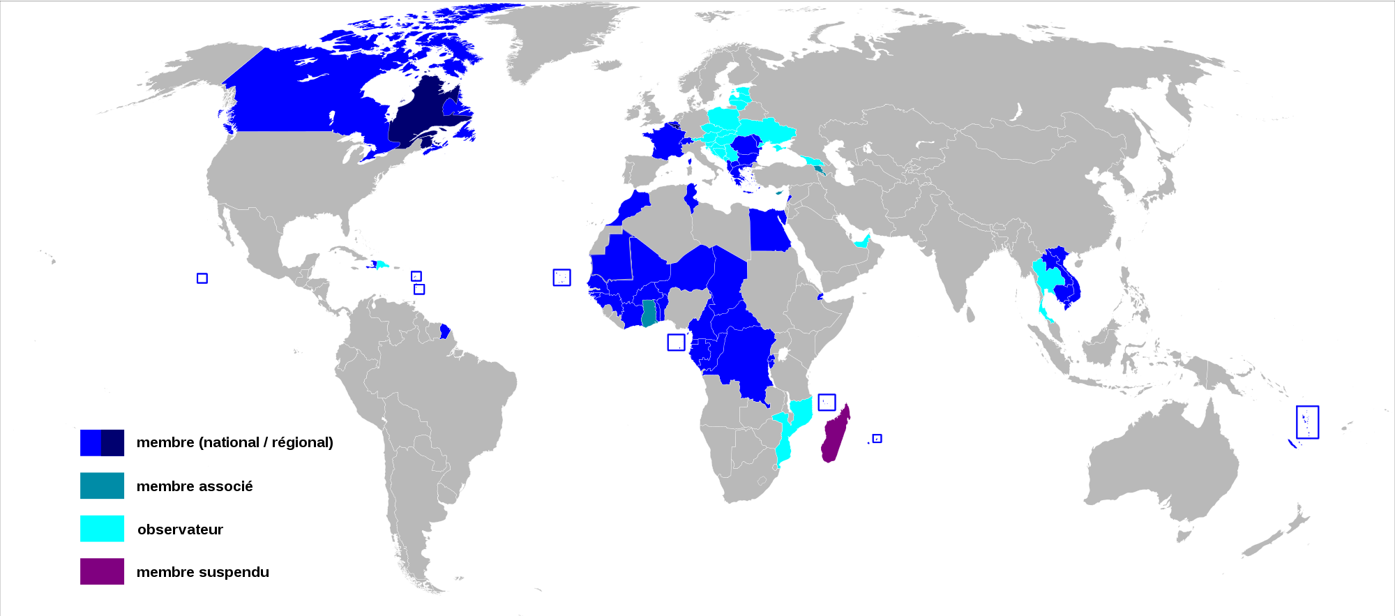 + show micro states (Mauritius, Clipperton island, Saint Lucia, São Tomé and Príncipe, Comoros, Cape Verde, Vanuatu)